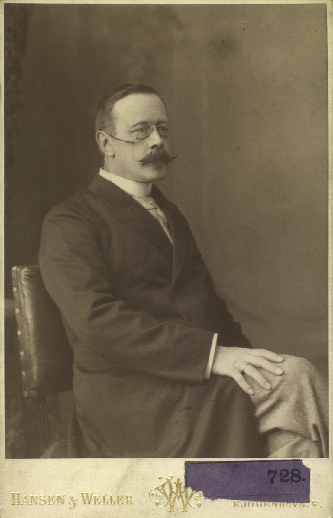 Studio portrait by Hansen & Weller